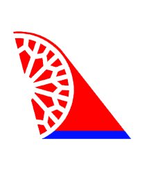 fly baghdad new logo